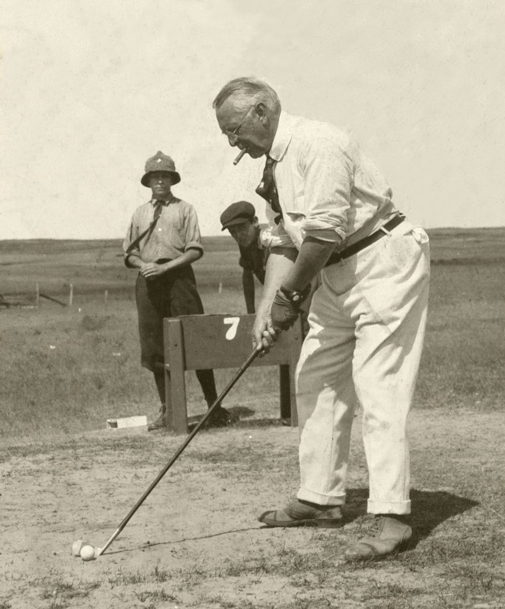 Actor Digby Bell, playing golf in Siasconset. Digby Bell, a 5' 5" singing comedian, starred in many Gilbert & Sullivan comic operas. He introduced the song, "The Man Who Broke the Bank at Monte Carlo", while playing the Charles Dana Gibson character, Mr. Pipp. Bell was a fervent golfer and New York Giant baseball fan, as was his best friend and frequent co-star DeWolf Hopper.